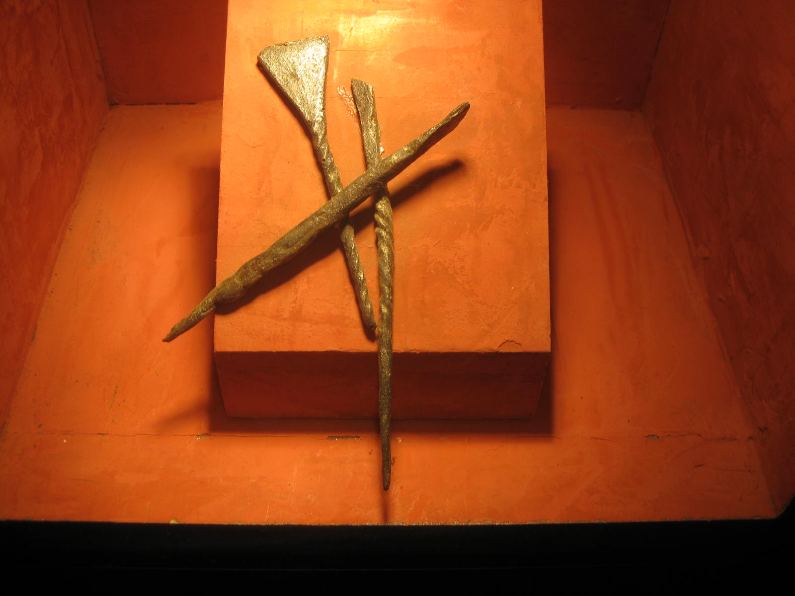 Mikulčice. Iron styli for writing on wax tablets from Palace site.